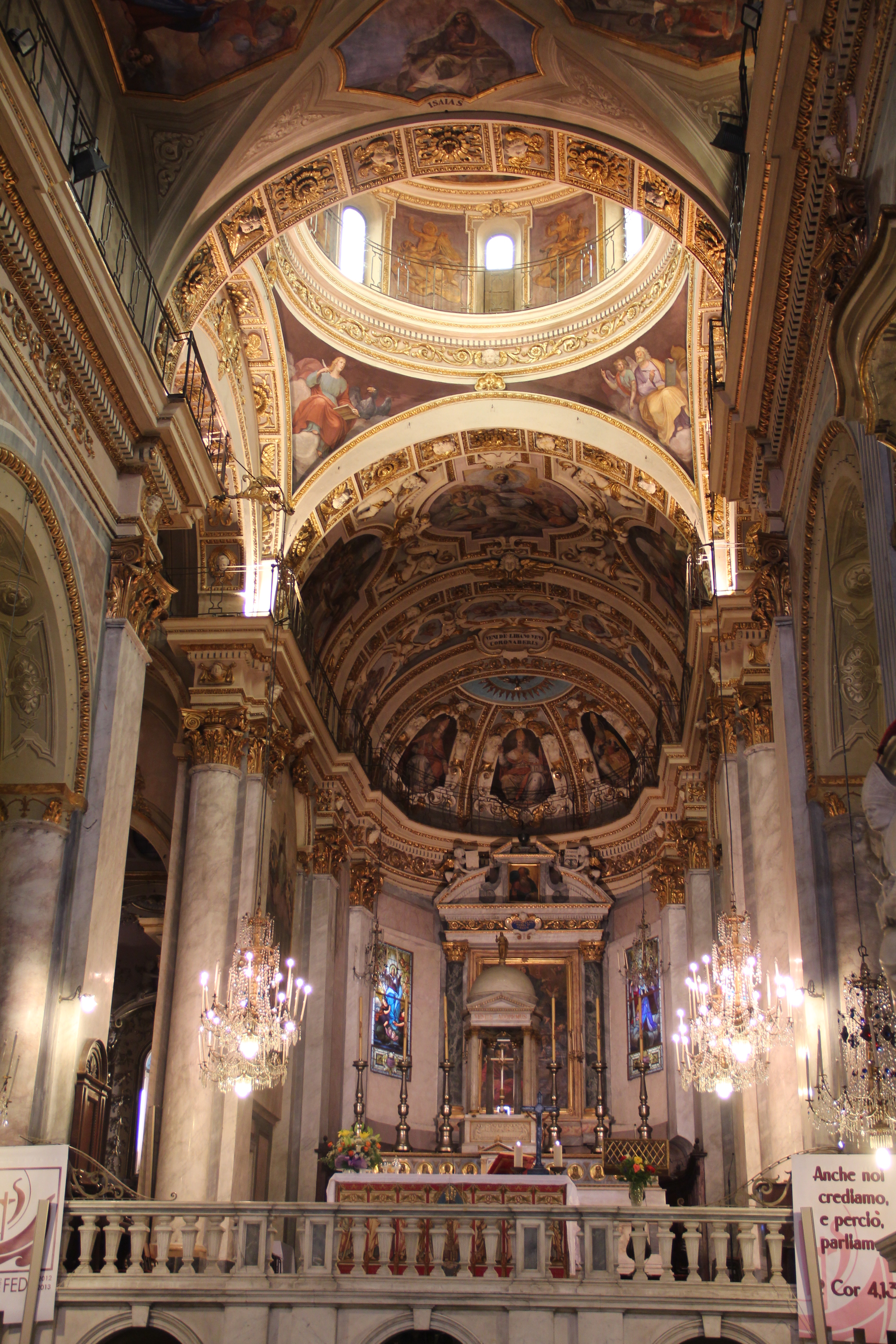 Apse of the cathedral of Acqui Terme in the province of Alessandria, Piemonte, Italy